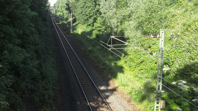 Railway track between Großheide and Windberg, Mönchengladbach, Northrhine-Westfalia, Germany